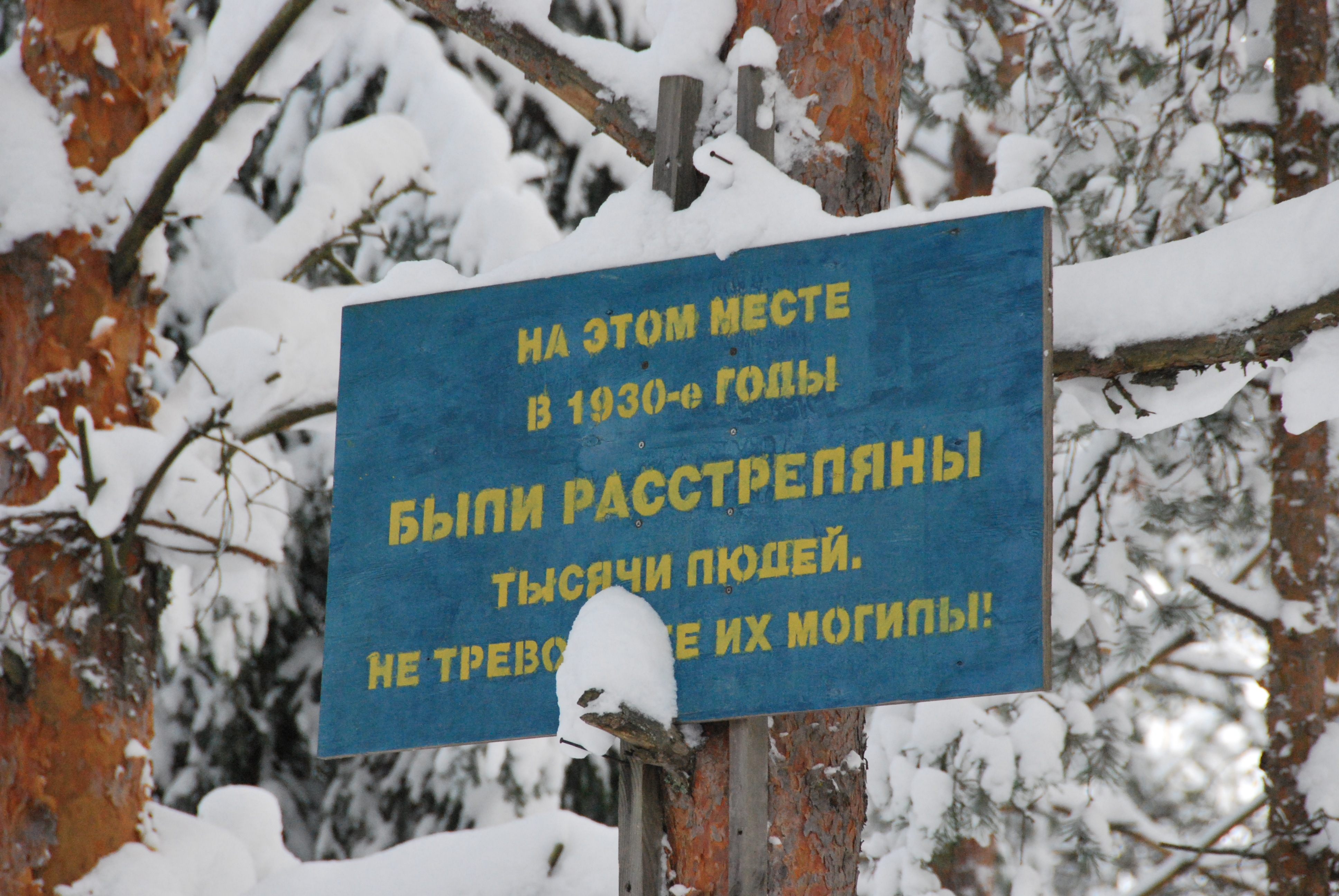 Memorial plaque in Koirankangas